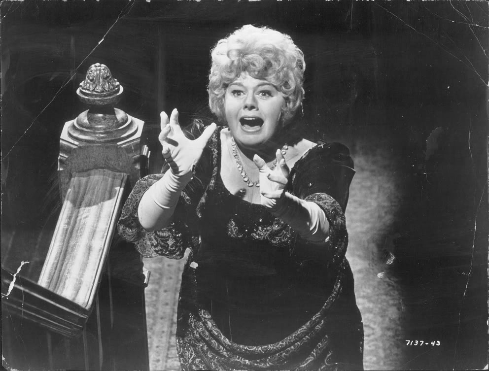 Publicity photo of American actress Shelley Winters promoting the 1971 feature film Whoever Slew Auntie Roo?.